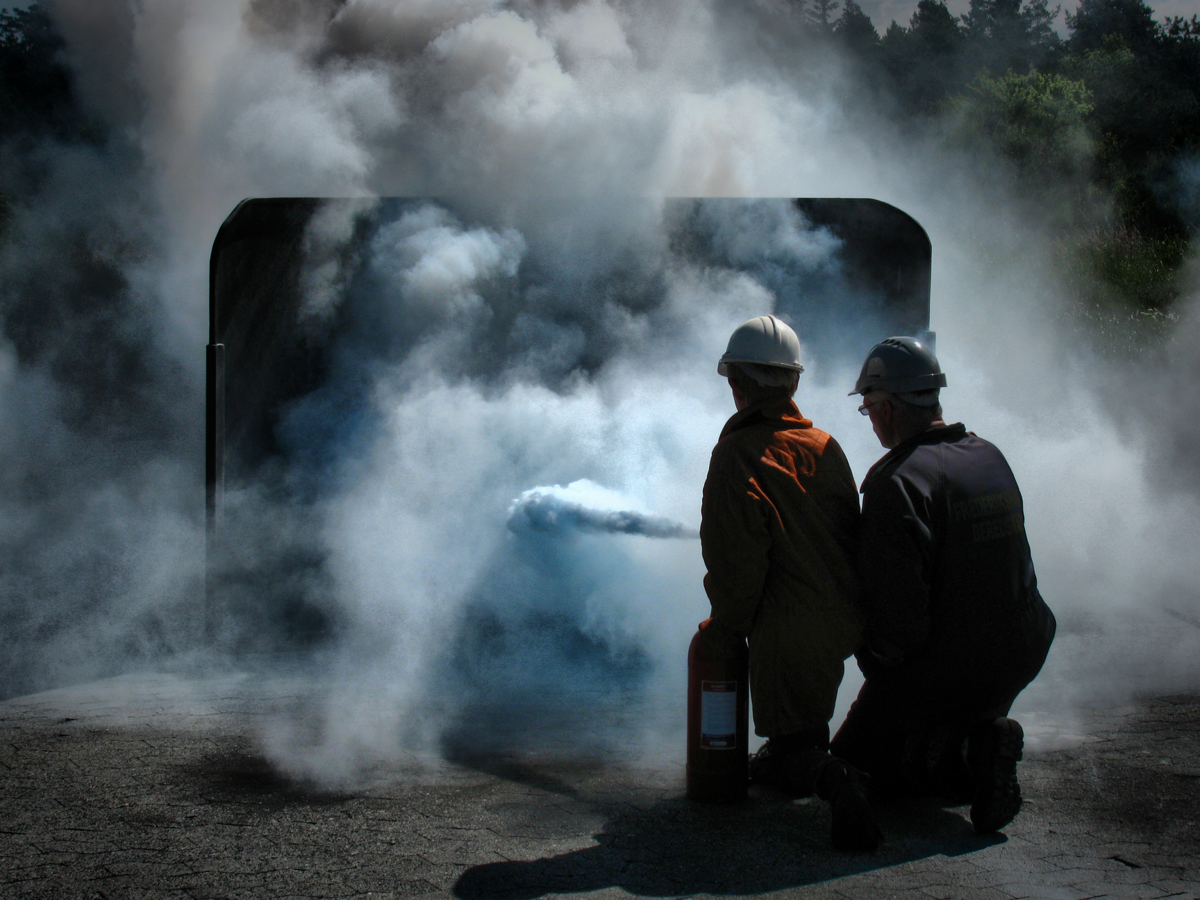 Firefighting exercise at Nordjysk Brand- og Redningsskole, Frederikshavn, Denmark